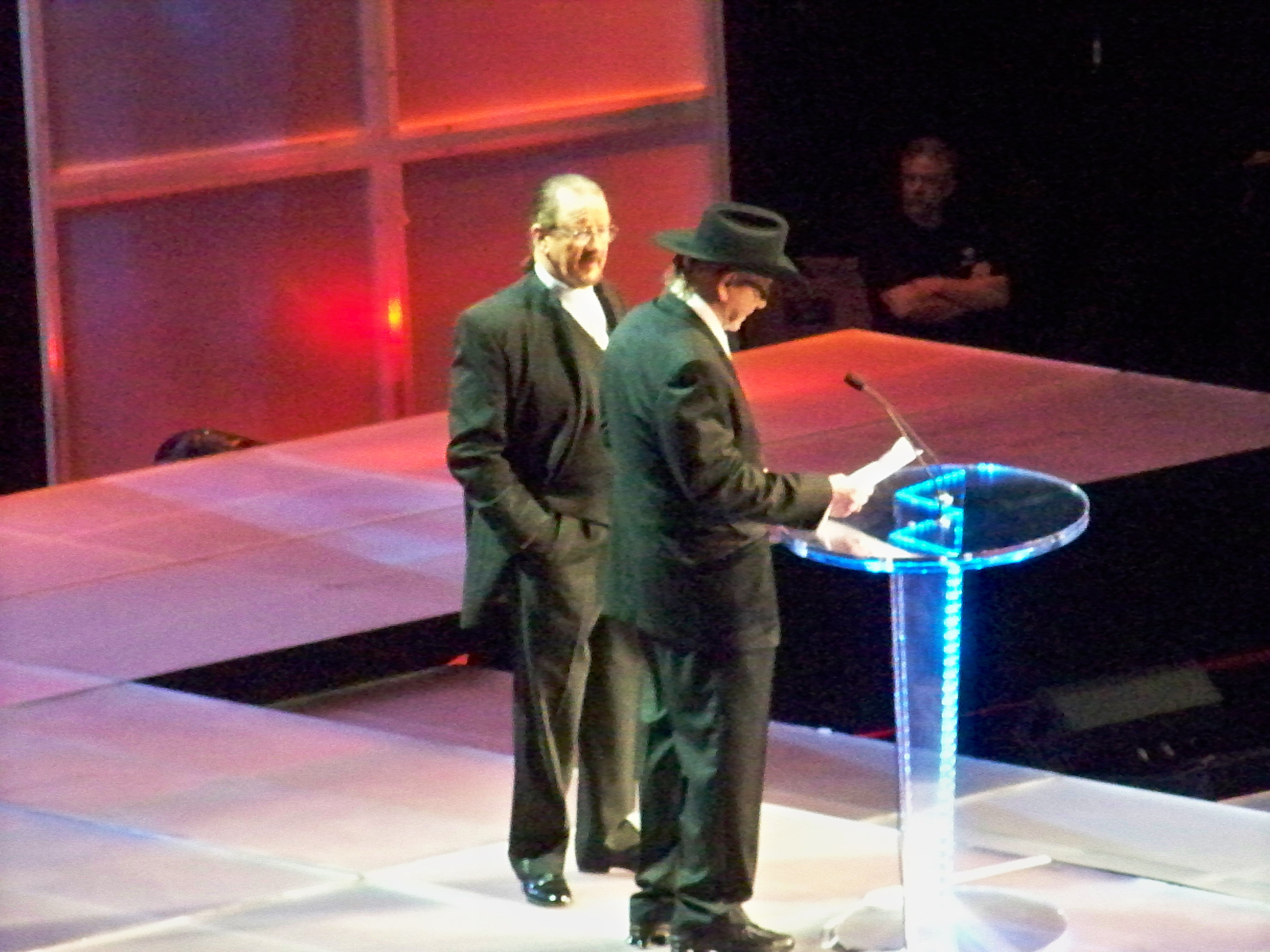 Professional wrestlers and brothers Terry Funk and Dory Funk, Jr. during their acceptance speech at their induction into the WWE Hall of Fame, at the 2009 cermony on April 5.